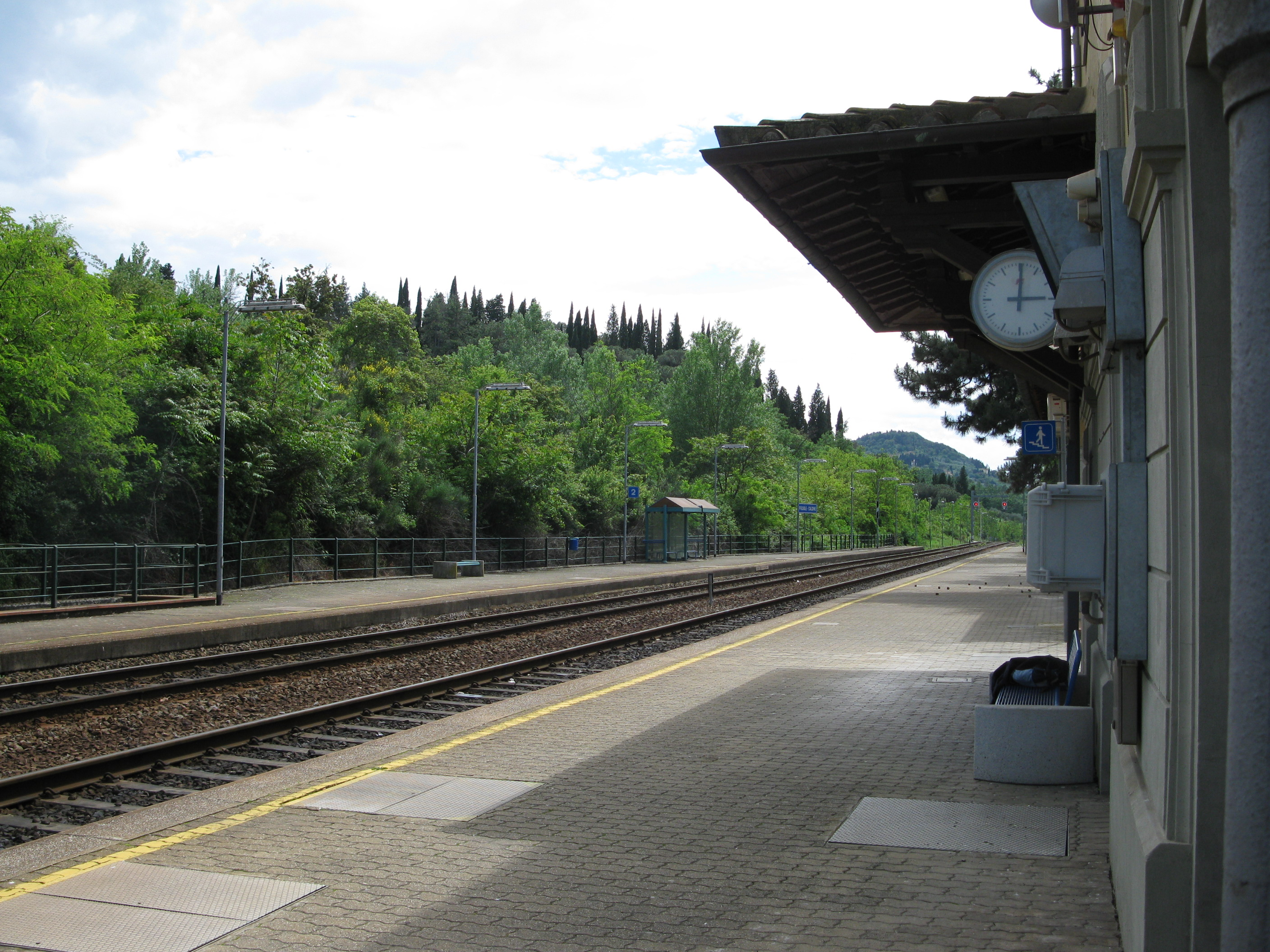 Fiesole-Caldine railway station